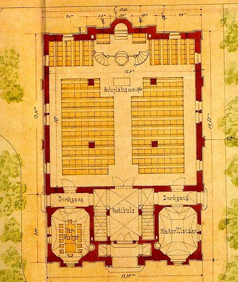 Synagogue of Göppingen - Architect's drawing